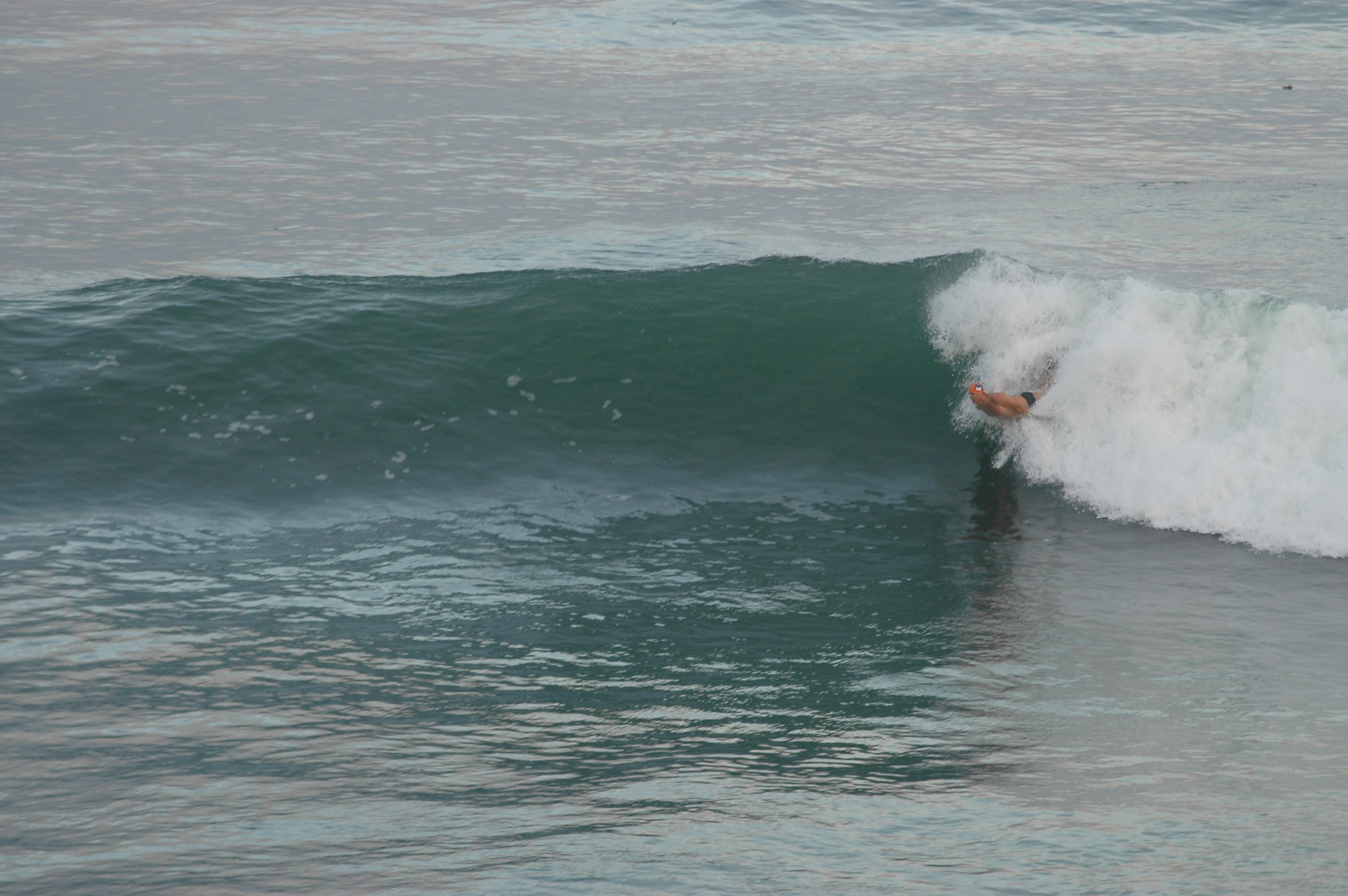 Power big wave bodysurfing